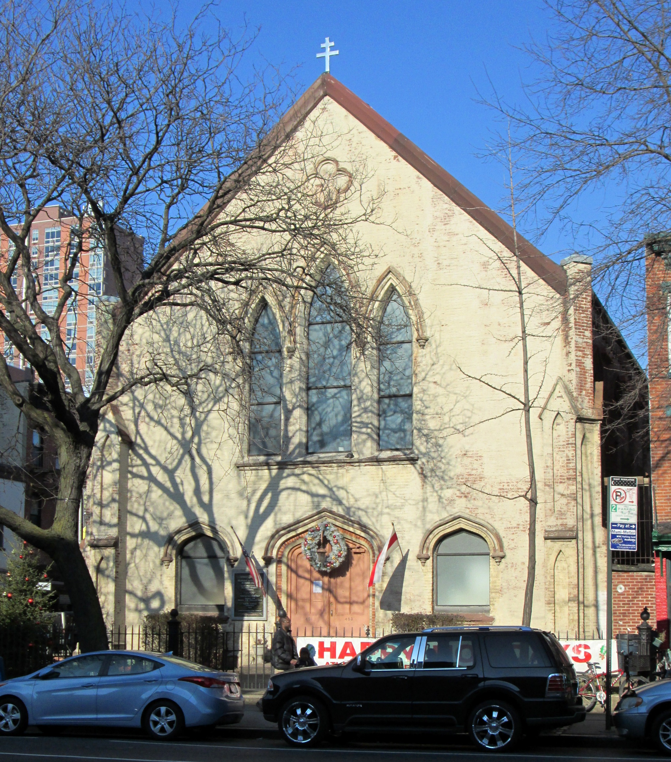 St Cyril of Turov Cathedral of the Byelorussian Autocephalic Orthodox Church in America, located at 401 Atlantic Avenue at the corner of Bond Street in the Boerum Hill neighborhood of Brooklyn, New York City was built in 1902 in a simplified Gothic style, on the site of an earlier church, dating from the 1850s, which had been St. Peter's Episcopal Church and then Second United Presbyterian Church. The current building was sold to Belarusan immigrants in 1950 (Source: "The Brownstoner")